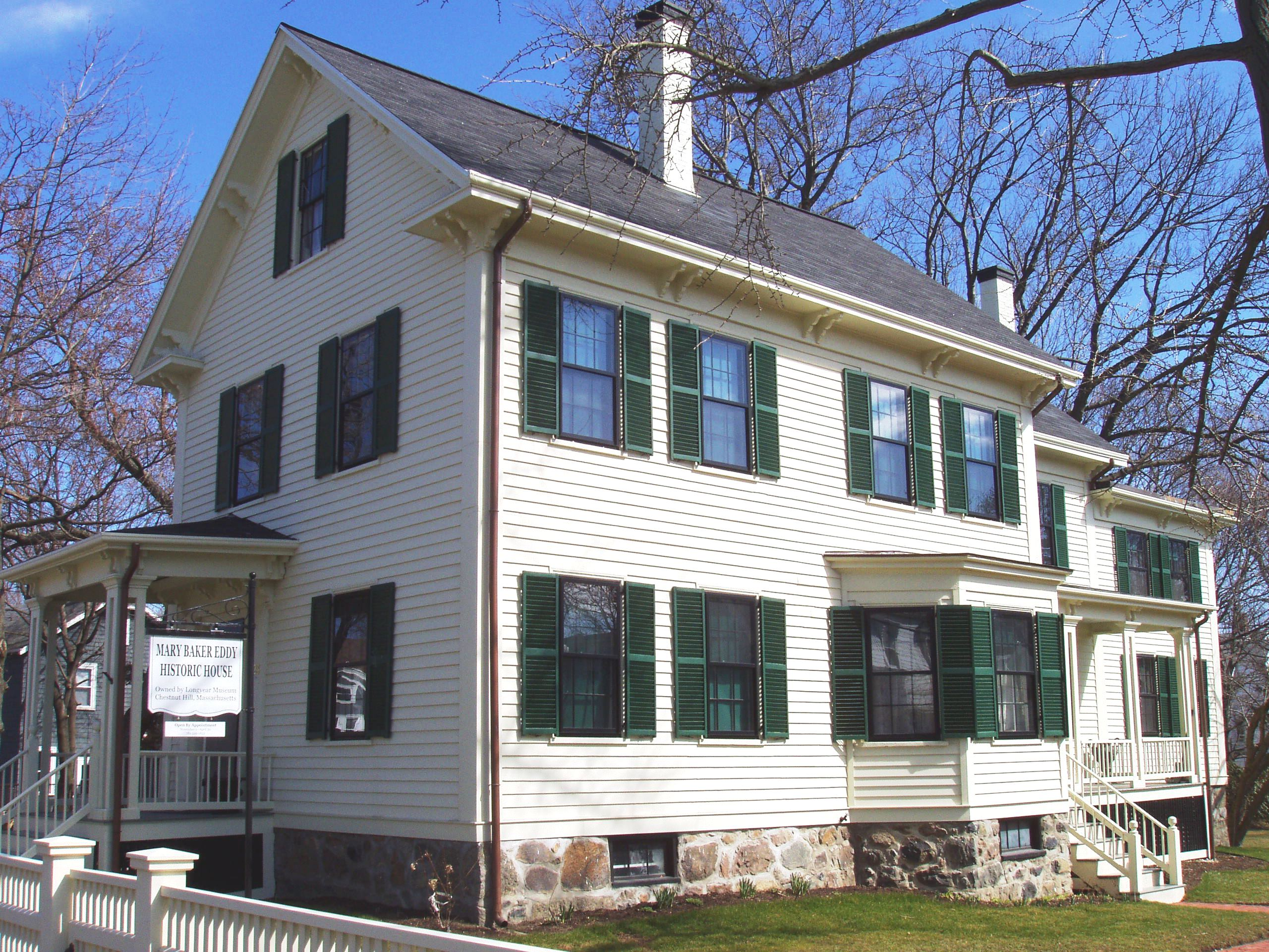 Mary Baker Eddy Historic House - Swampscott, Massachusetts. Photograph taken by me, March 2006.